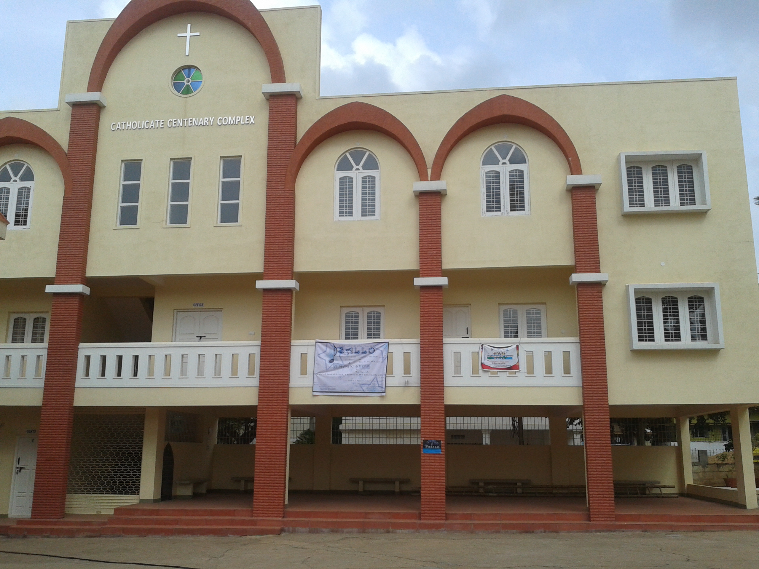 Recent photo of the newly constructed Parsonage at St Mary's Orthodox Valiyapally